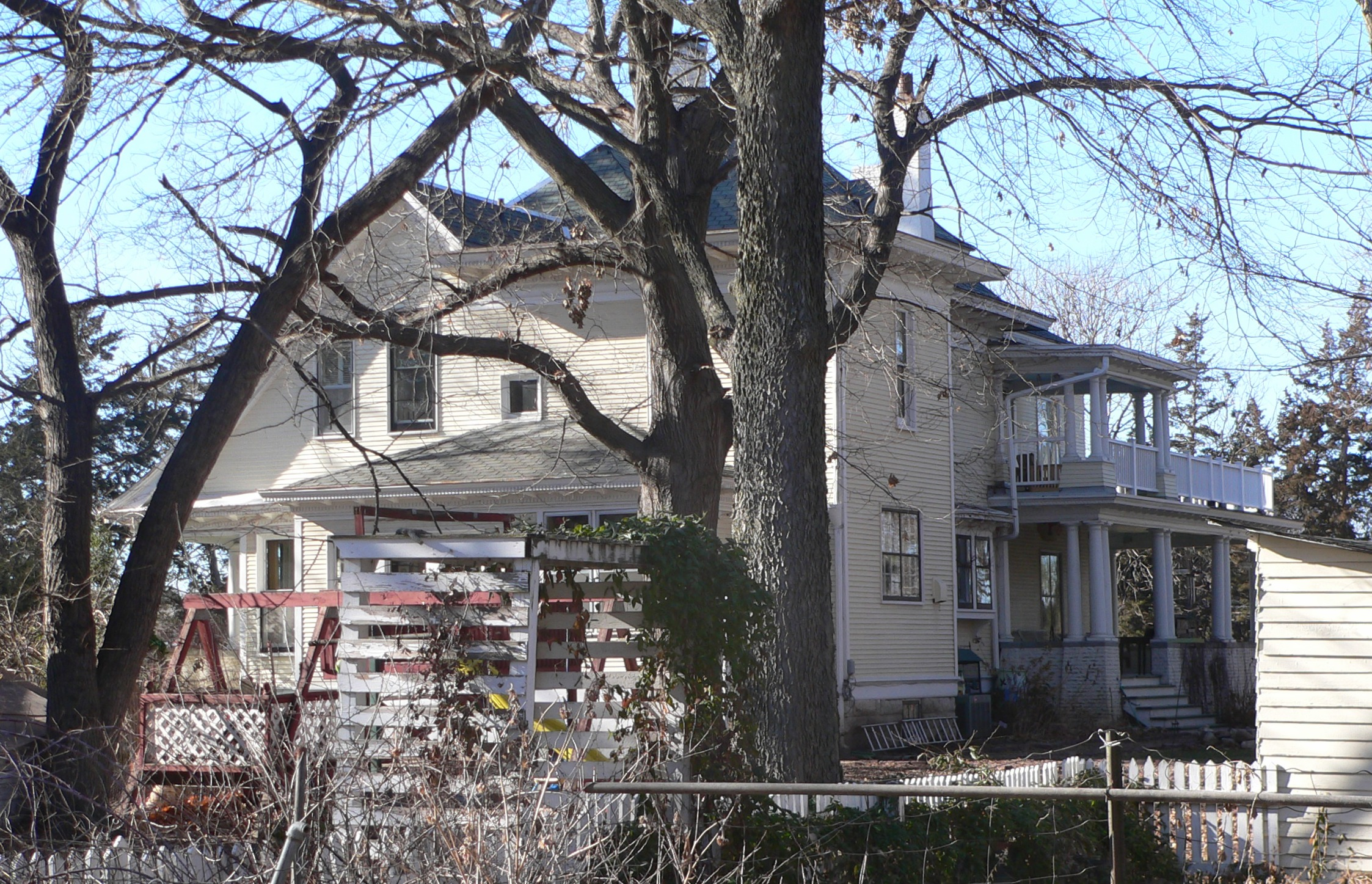 Park Hill, located at 1913 S. 41st Street in Lincoln, Nebraska; seen from the northeast.